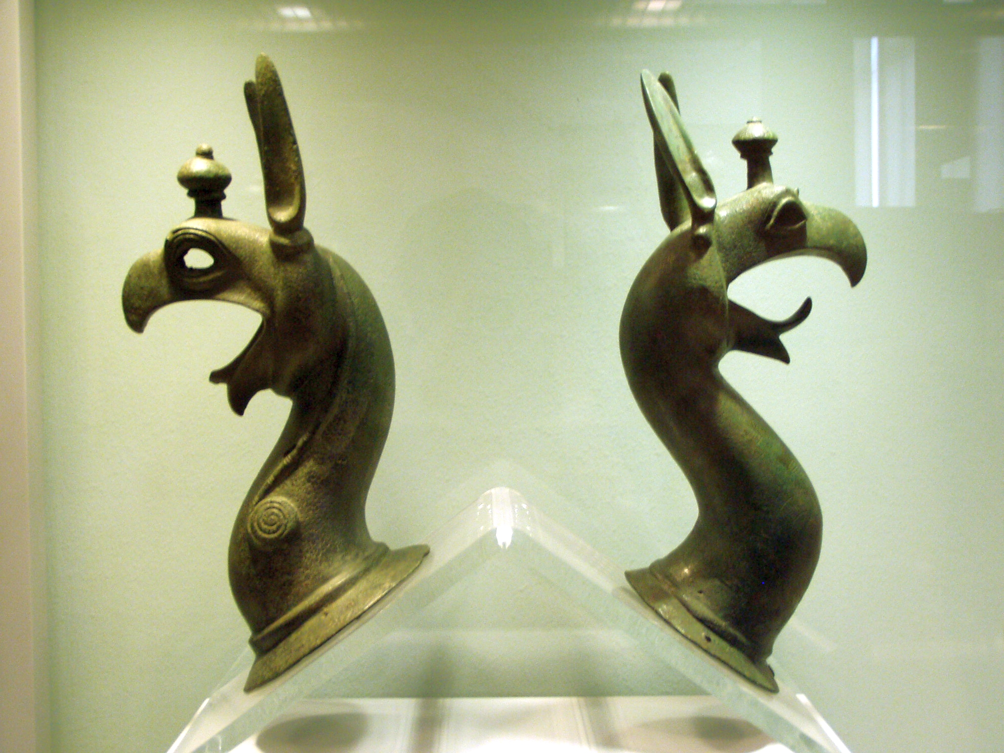 Two griffen protomes from the decoration of cauldrons; bronce; 7th century B.C.; National Archeological Museum of Athens